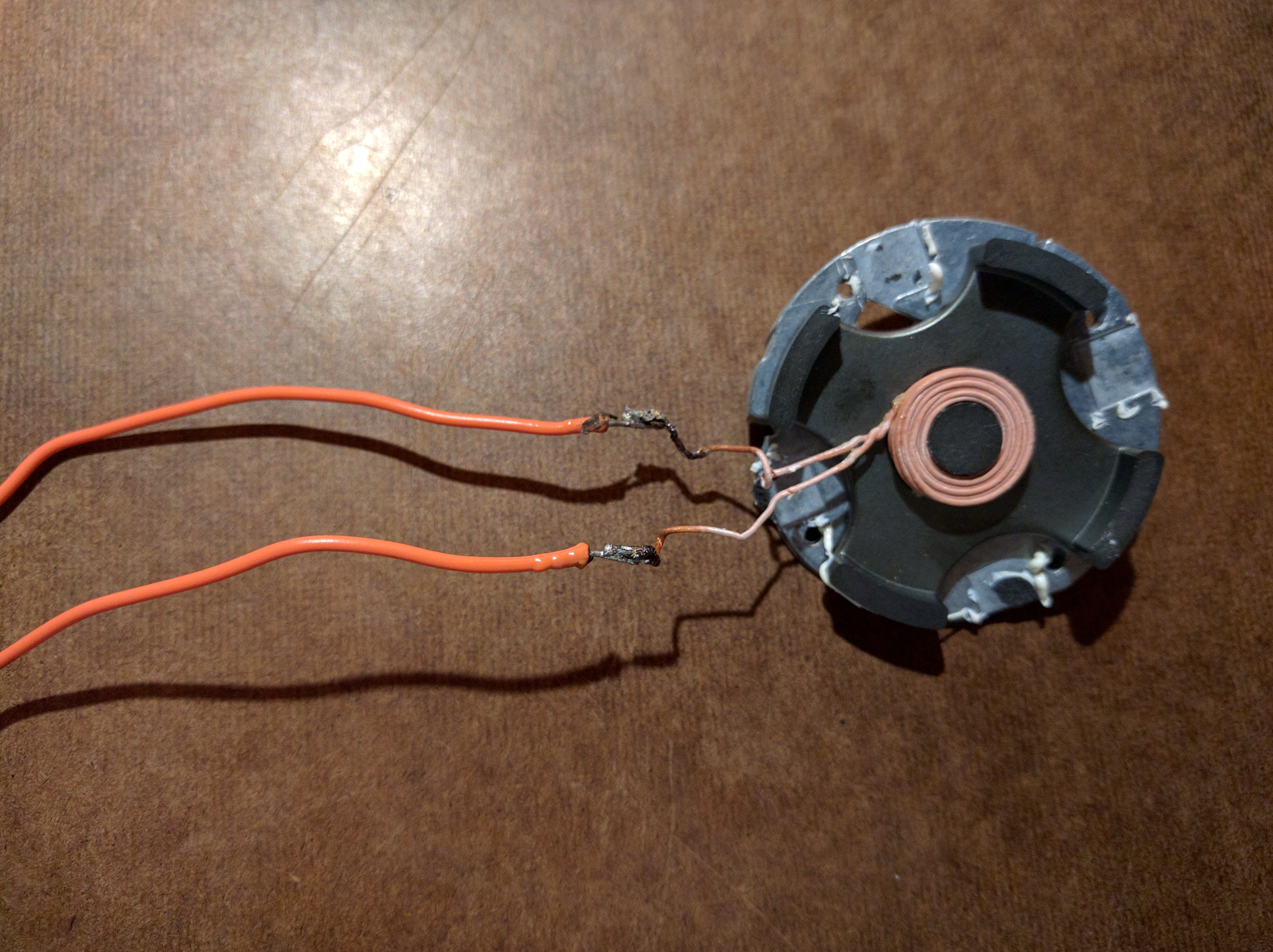 An induction coil, like the one above, can be used to capture electromagnetic waves.